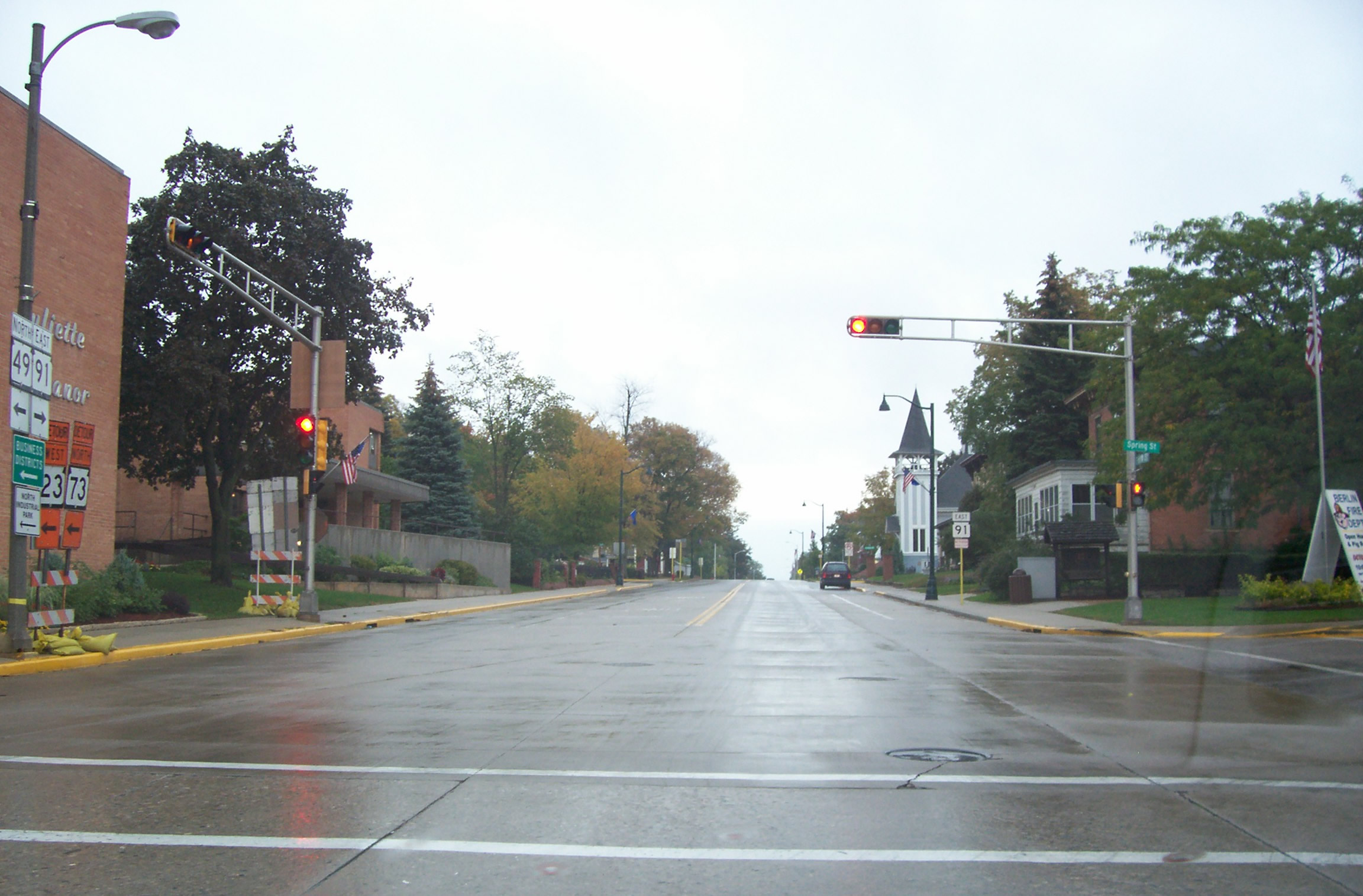 Looking east while on the Highway 49 (Wisconsin) at the west terminus of Highway 91 (Wisconsin) in Berlin, Wisconsin. This image was taken on September 23, 2006 and cropped by User:Royalbroil. Category:Images of Wisconsin highways